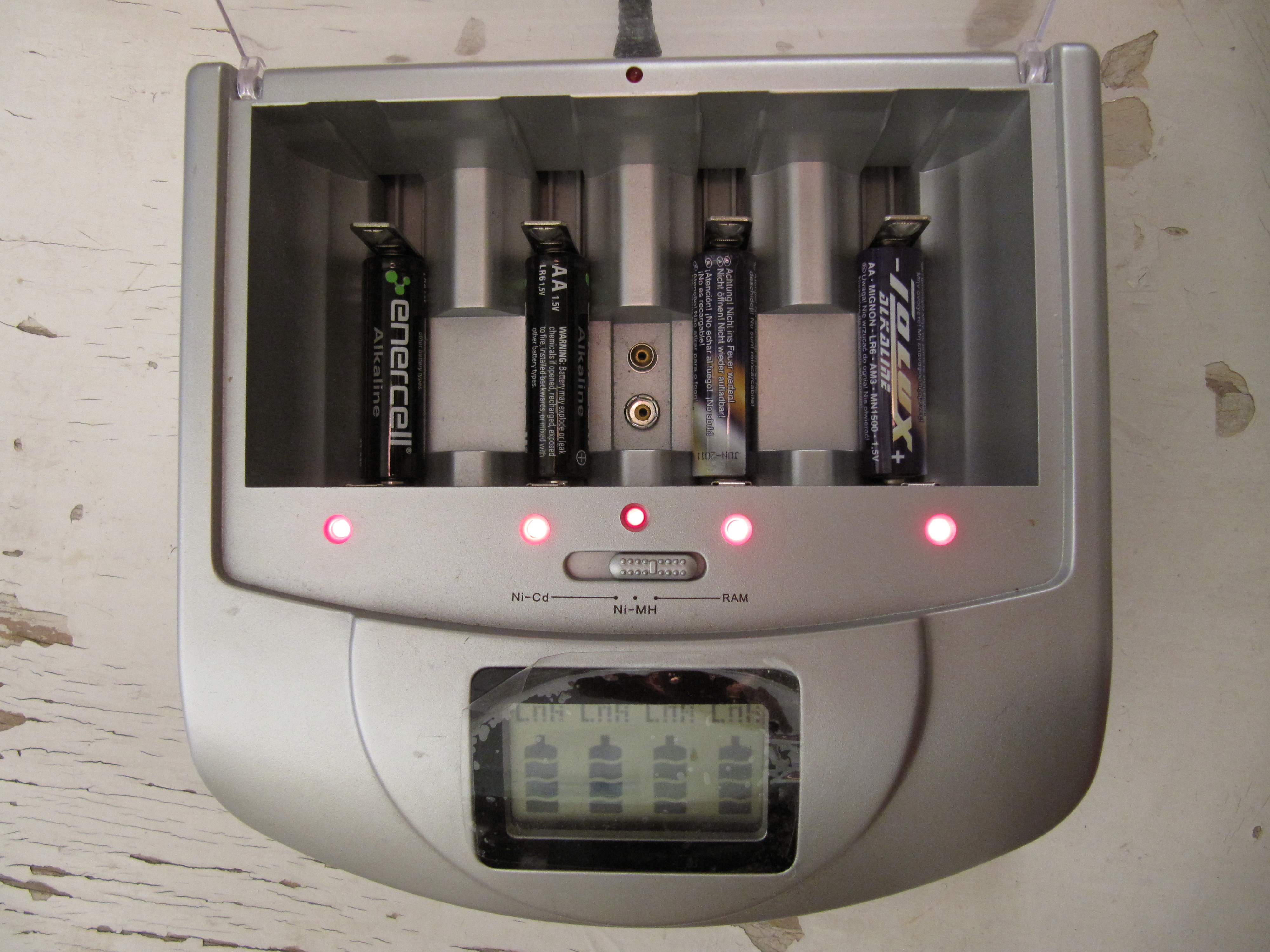 A NiMH-NiCd-RAM cell charger (Model UC3107 from D-Westkauf GmbH, made in China). I am experimentally charging primary alkaline cells for the first time. The four charge LEDs eventually switched from red to green indicating that charging had stopped. All cells felt cold to the touch. One pair of cells was then able to operate a Garmin eTrex Vista HCx GPS receiver while the other pair failed to operate a Canon PowerShot A410 digital camera.